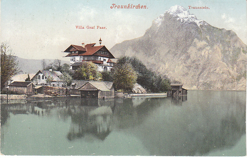 Villa of Count Paar in Traunkirchen with Traunstein in the background.